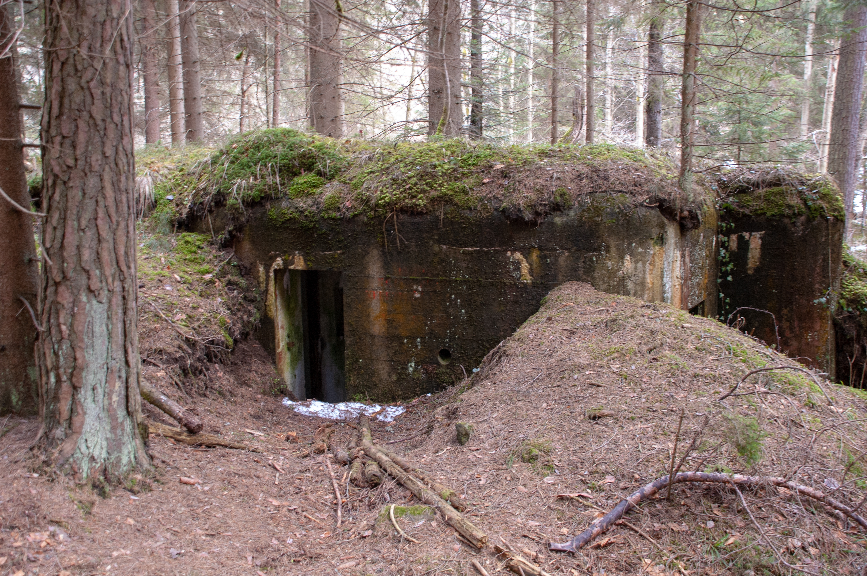 This image was created as a part of Editaton Prachatice (Czech).